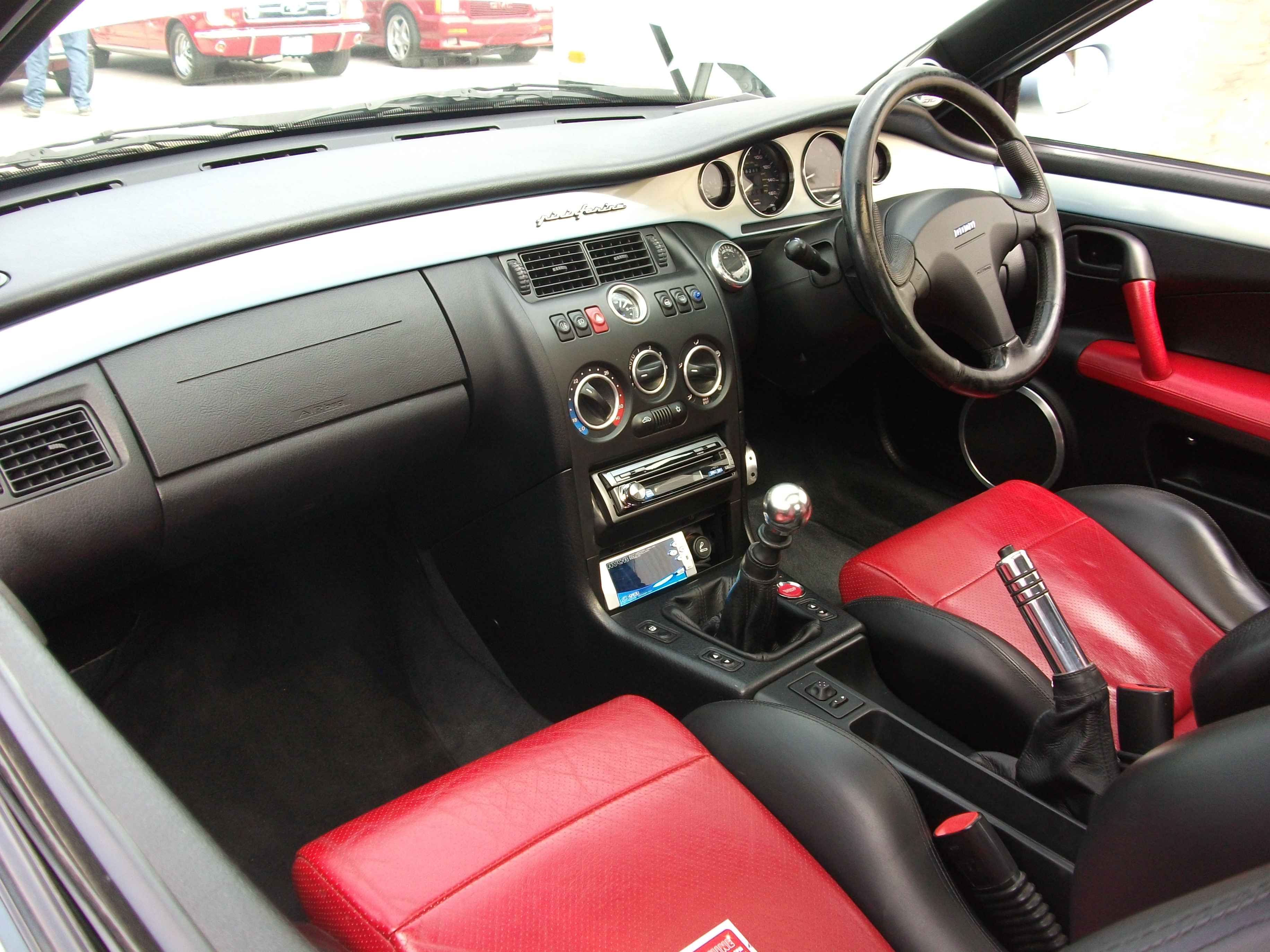 Interesting import this 1997 Fiat Coupe 20VT. First one I've seen in Canada.